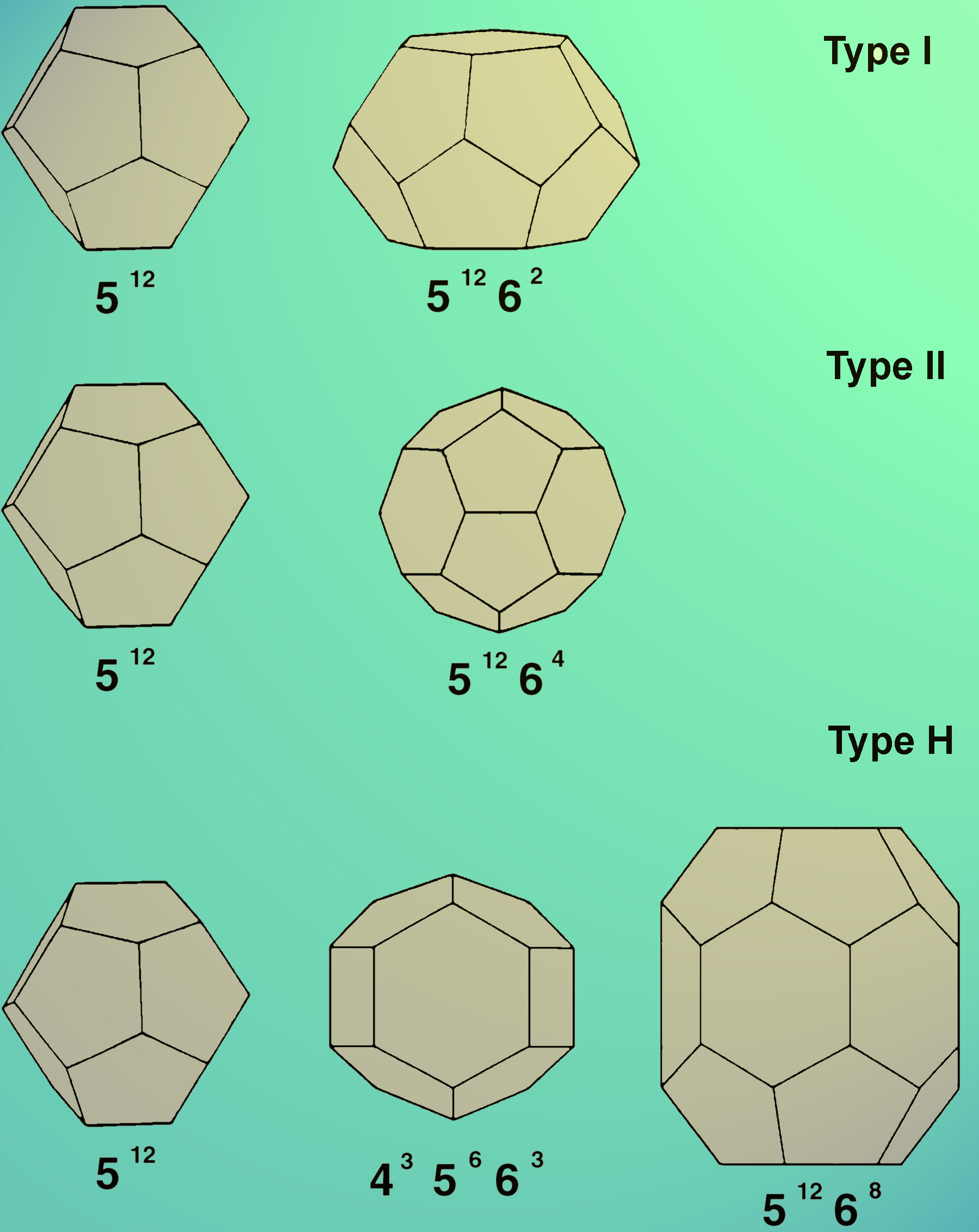 Cages forming the three gas hydrate structures